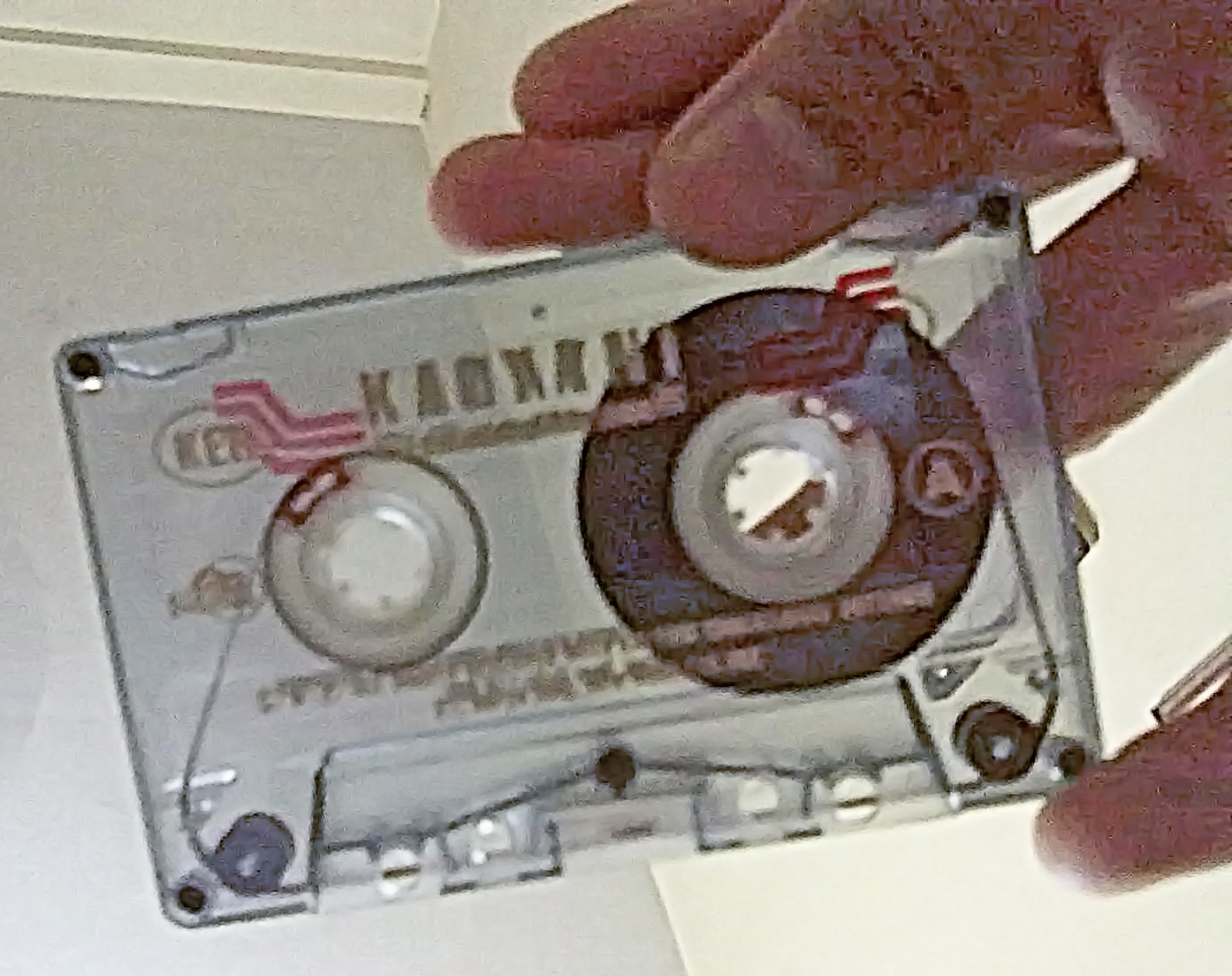 magnetic recording tape cassette. earlier used in sony walkman and other devices when dvd's and cd's were not so much developed